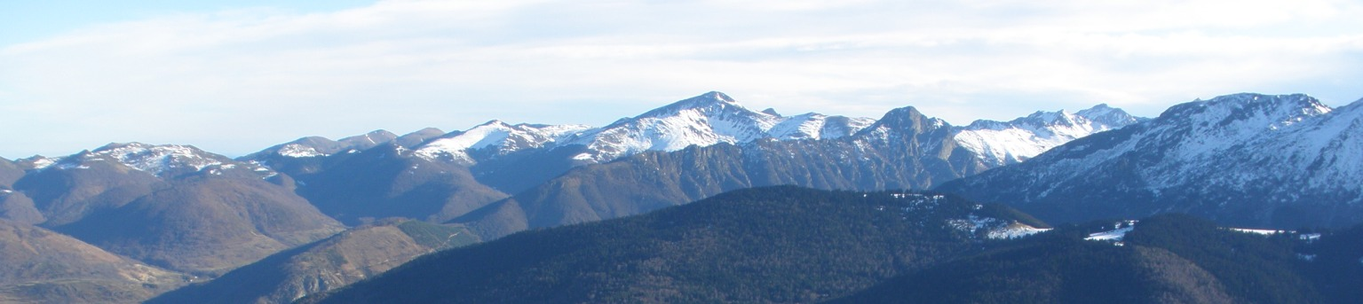 Moutains near Ax 3 Domaines.